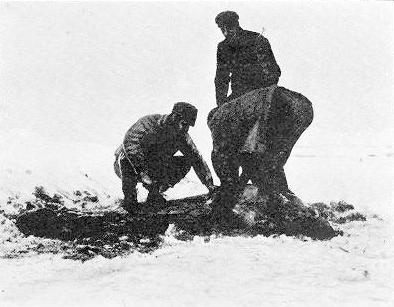 Southern Cross expedition 1898-1900: Colbeck, Bernacchi and Evans skinning a seal.